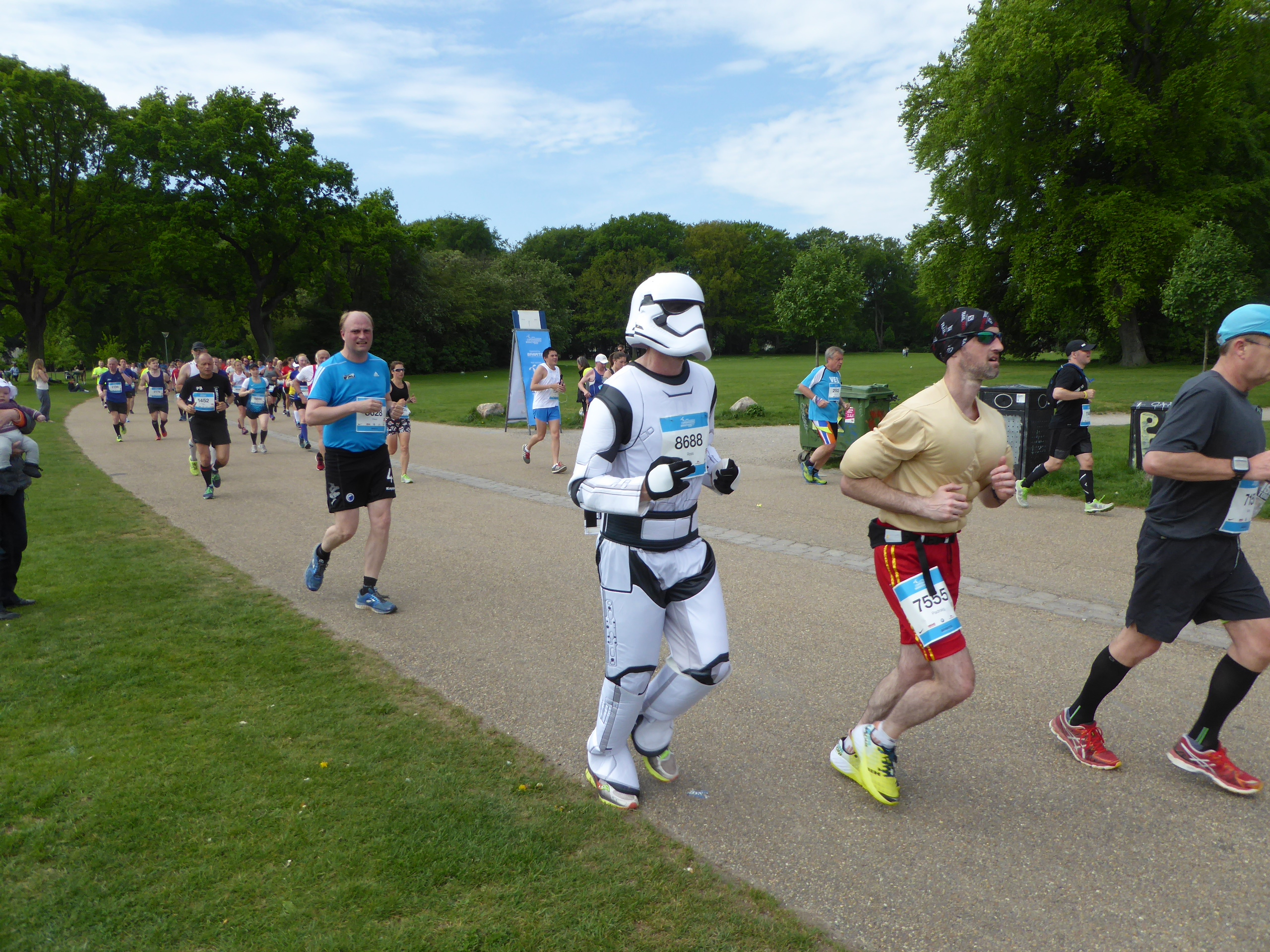 Copenhagen Marathon 2016 in Fælledparken in Østerbro. They have been running for 9 km at this point. The stormtrooper did make it through.